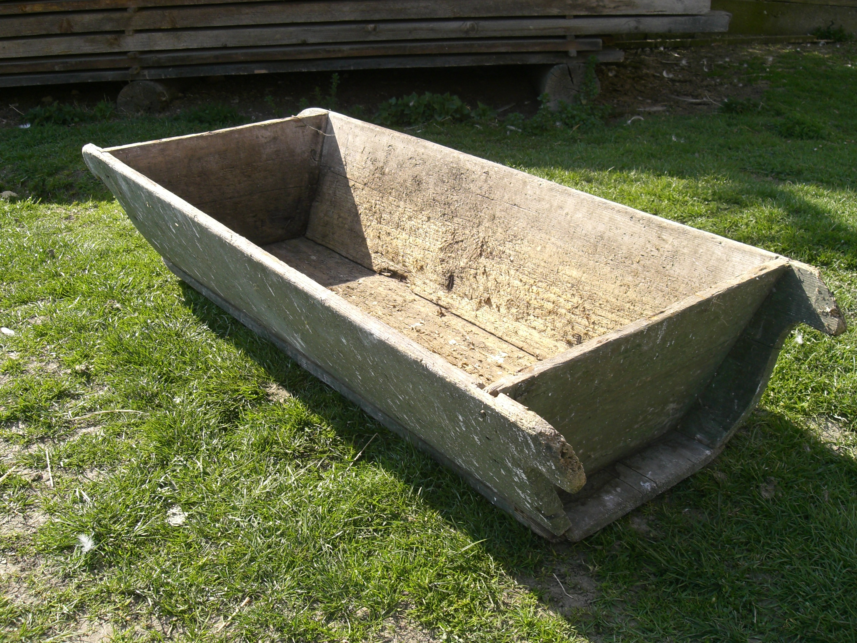 Wooden washtub, Czech Republic